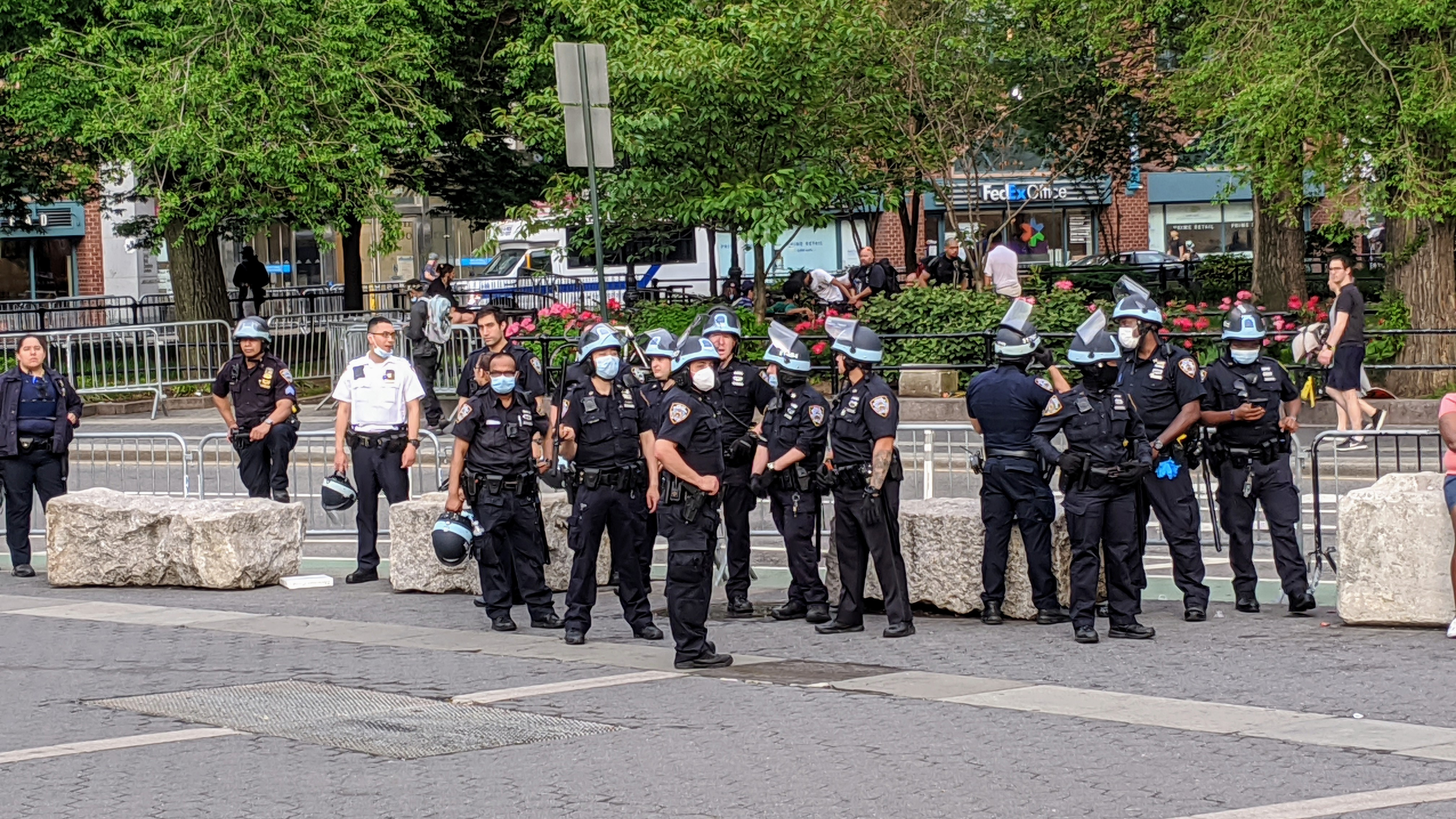 Ready for a Riot